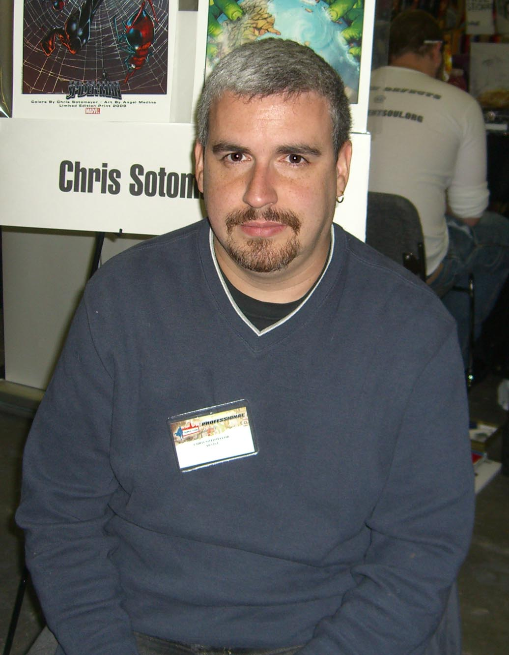 Comic book creator Chris Sotomayor at the Big Apple Convention in Manhattan. Photographed by Luigi Novi. This photo may only be used if the photographer is properly credited. (See Licensing information below.)